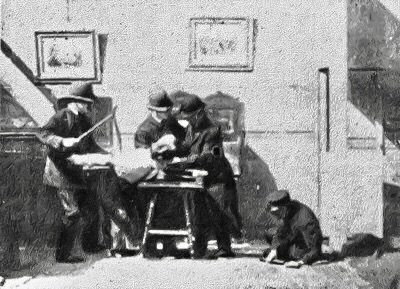 Still from the 1906 film The Female Highwayman by Selig Polyscope Company (Chicago), Film Supplement, number 47, November 1906, p. 3 of 3 pdf copies of original 6-page publication, Edison Collection (I-098), Rutgers Libraries, The State University of New Jersey (Piscataway, New Jersey); includes two images of the female bandit (likely actress Margaret Leslie); scene of police officers trying to restrain female bandit; wounded officer (right) lying on floor after being shot by bandit.